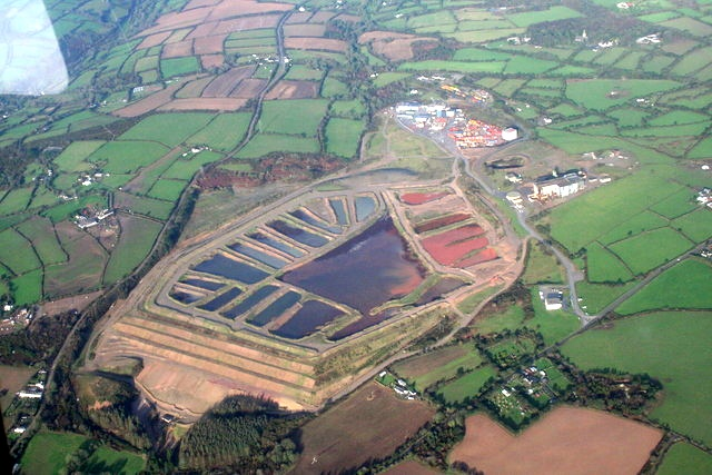 The Wheal Jane Tailings Dam from the air above the Bissoe Valley, Cornwall, England. Shows new settling pits for waste from the minewater treatment facility